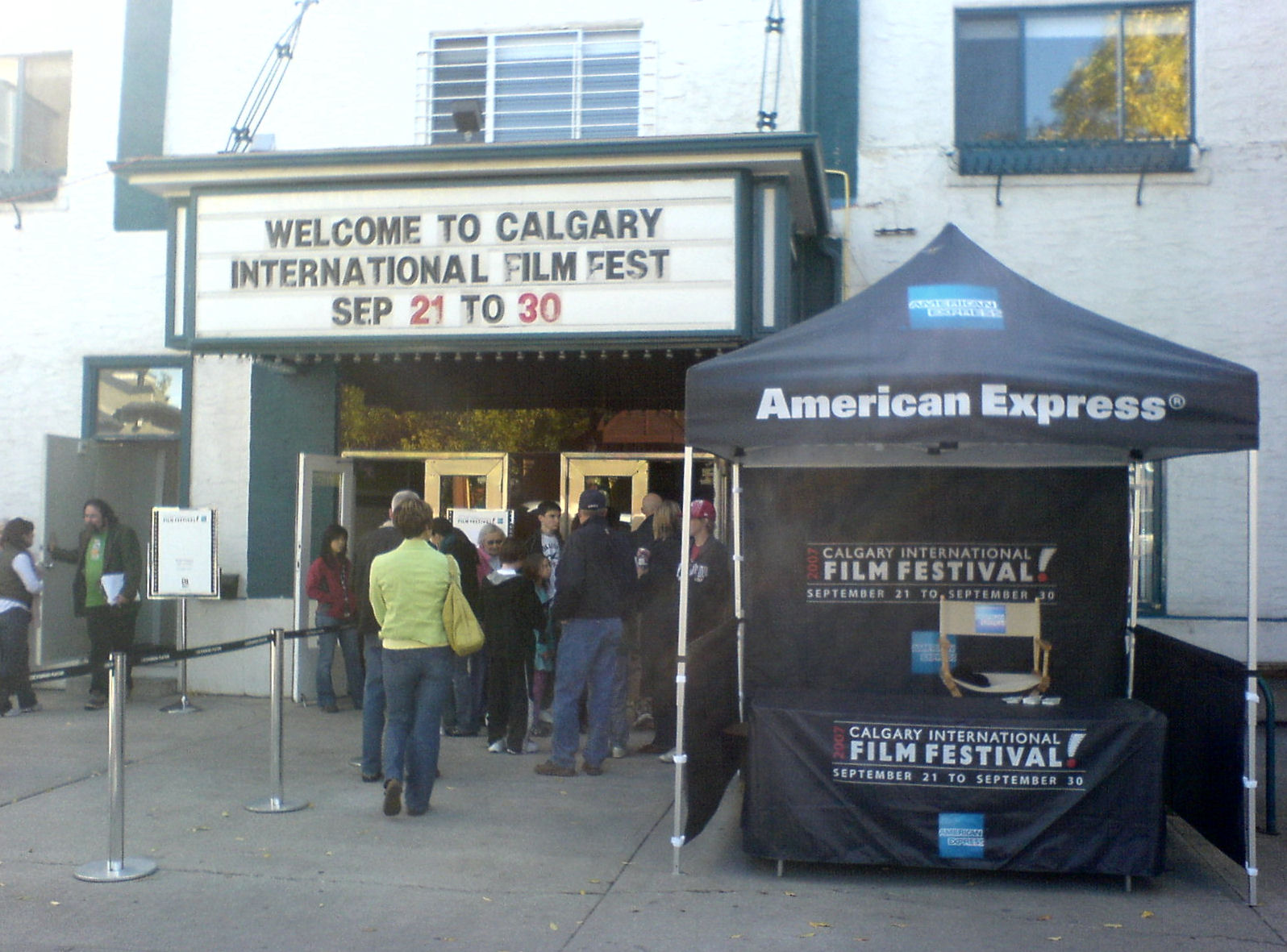 Outside the Plaza Theatre during the Calgary International Film Festival on September 22, 2007. Photo taken by Bhavesh Chauhan|.